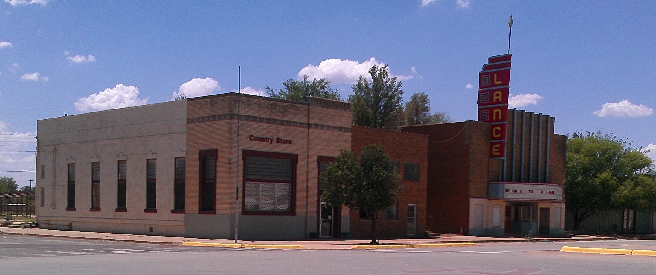 The neglected Lance Theater in Rotan, Texas. The sign reads, "We lm e to R tan."